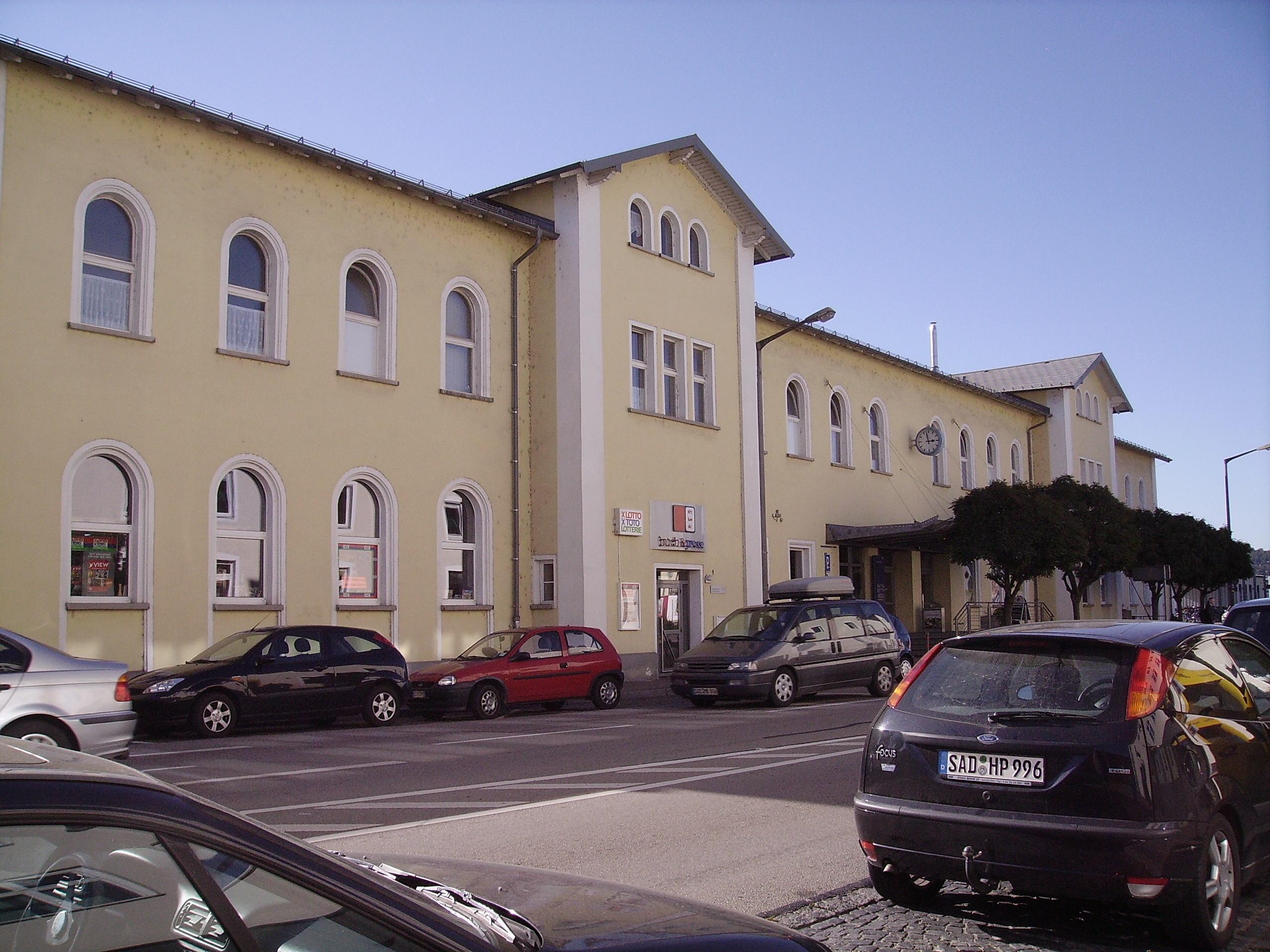 Schwandorf station from the front